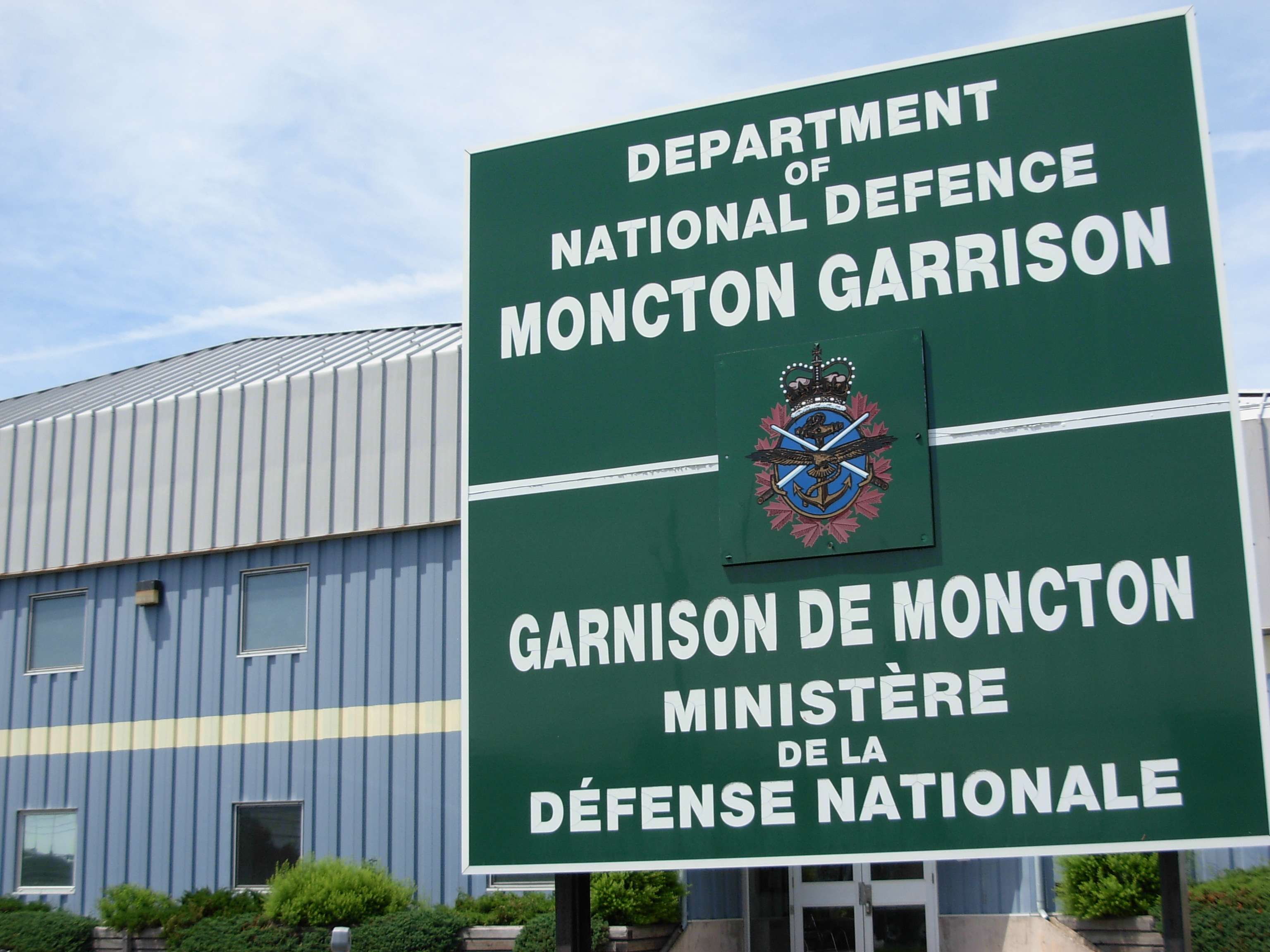 An image of the Moncton Garrison in Moncton.